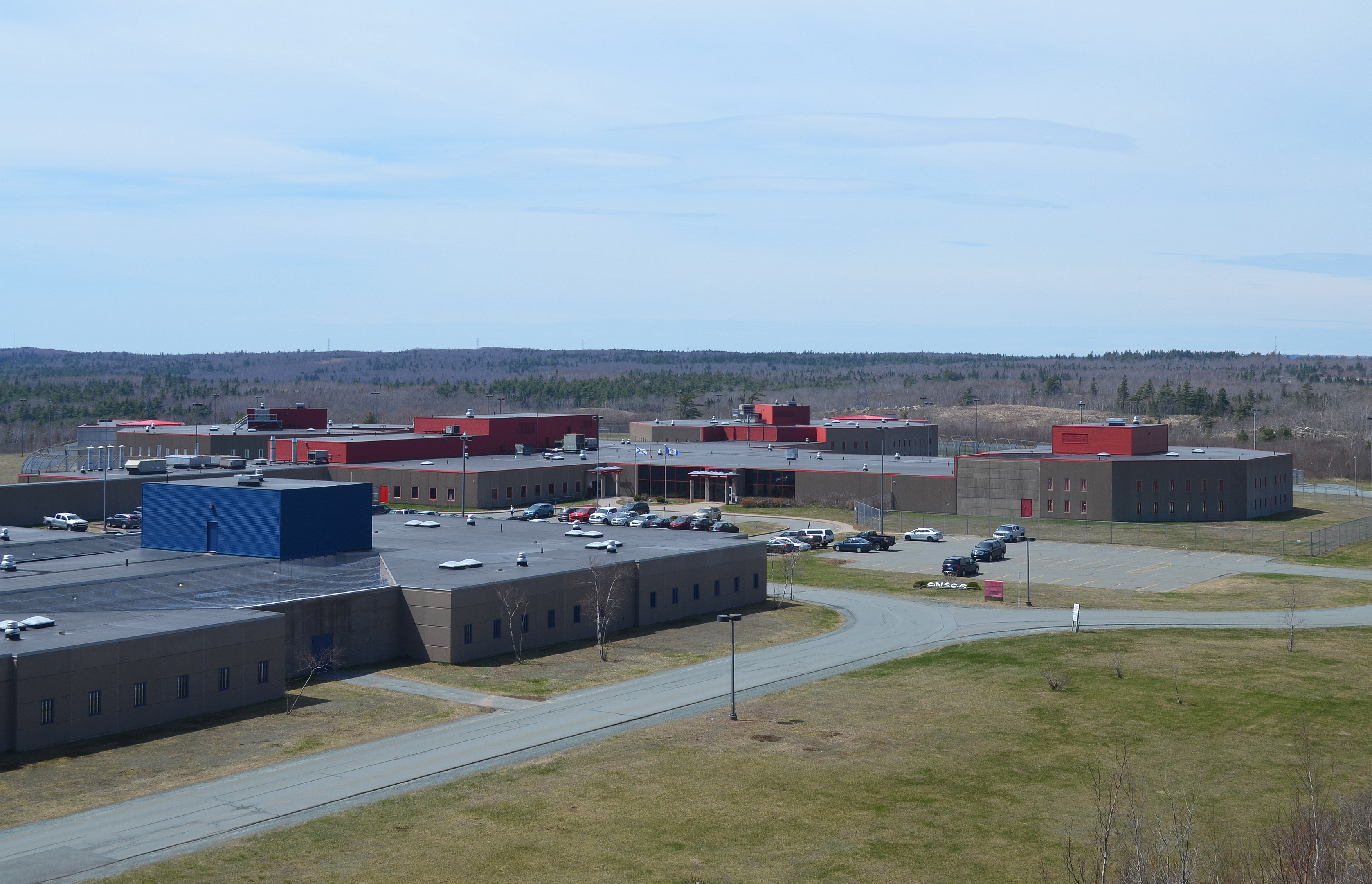 A view of the Central Nova Scotia Correctional Facility in May 2019.